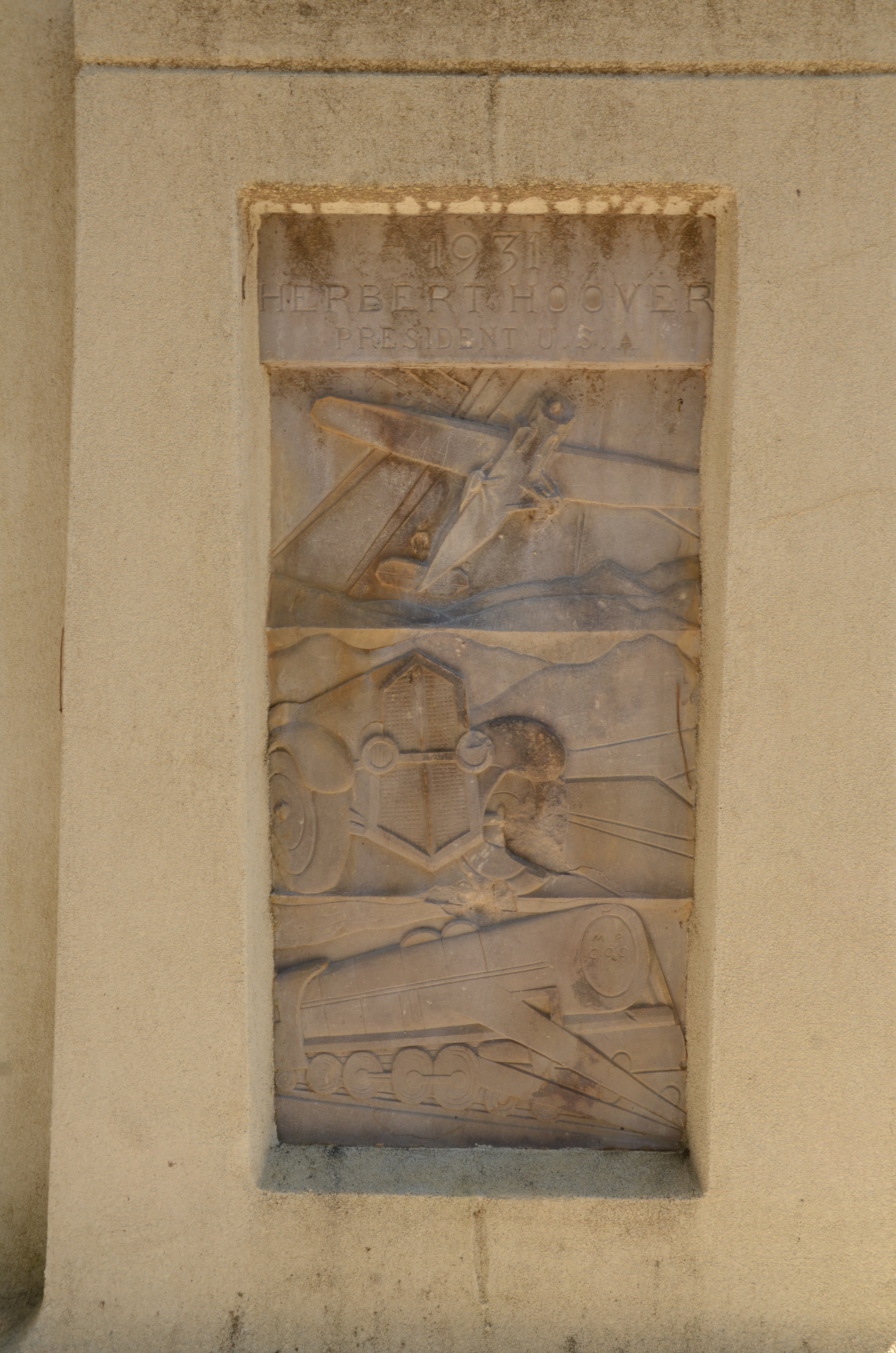 Dual State Monument West Face